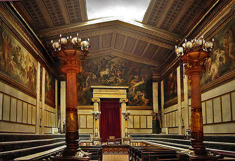 Interior of the Academy of Athens. The murals are by Christian Griepenkerl.